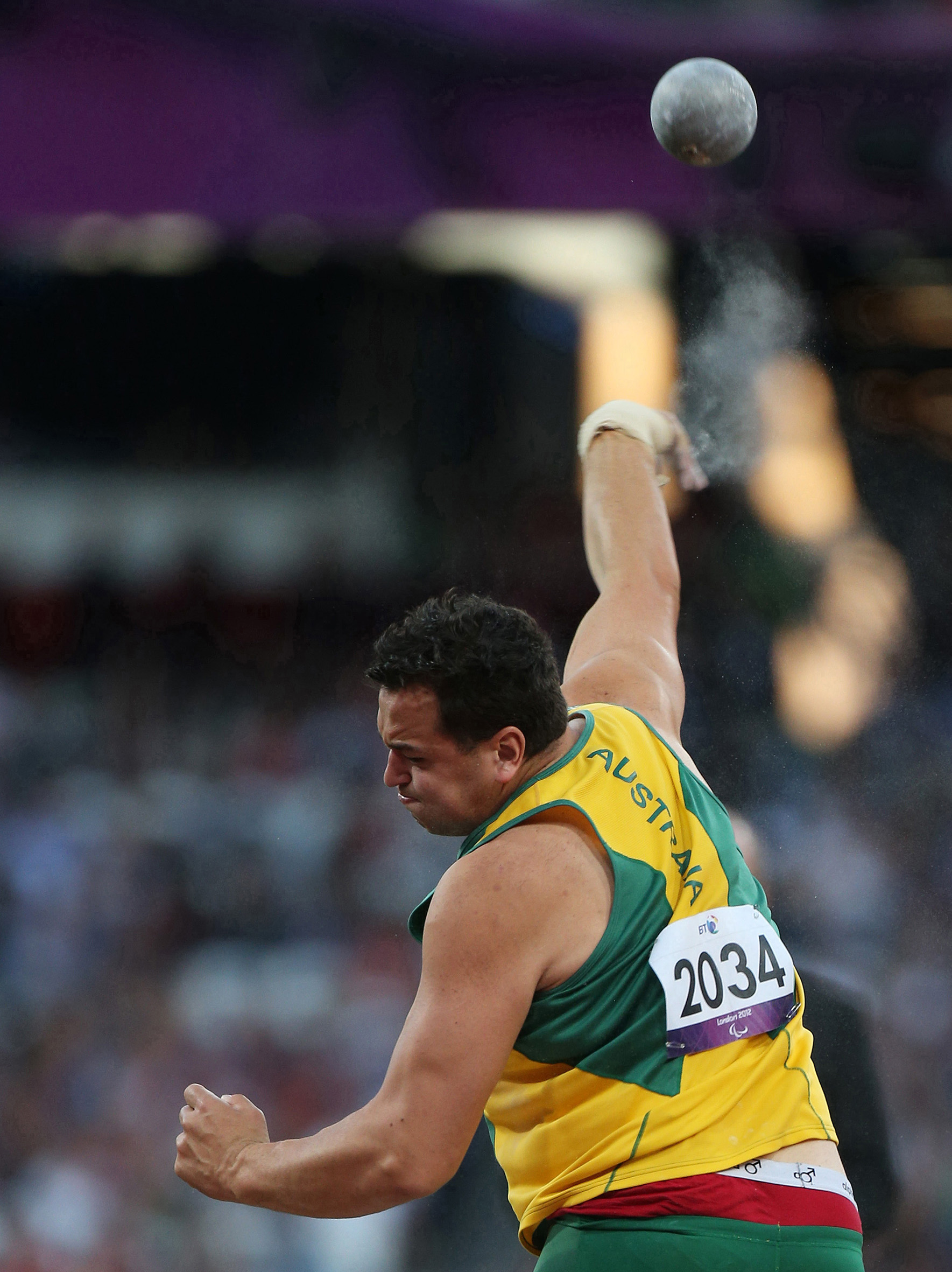 Photograph of Australian Paralympic team member Todd Hodgetts at the 2012 Summer Paralympic Games in London